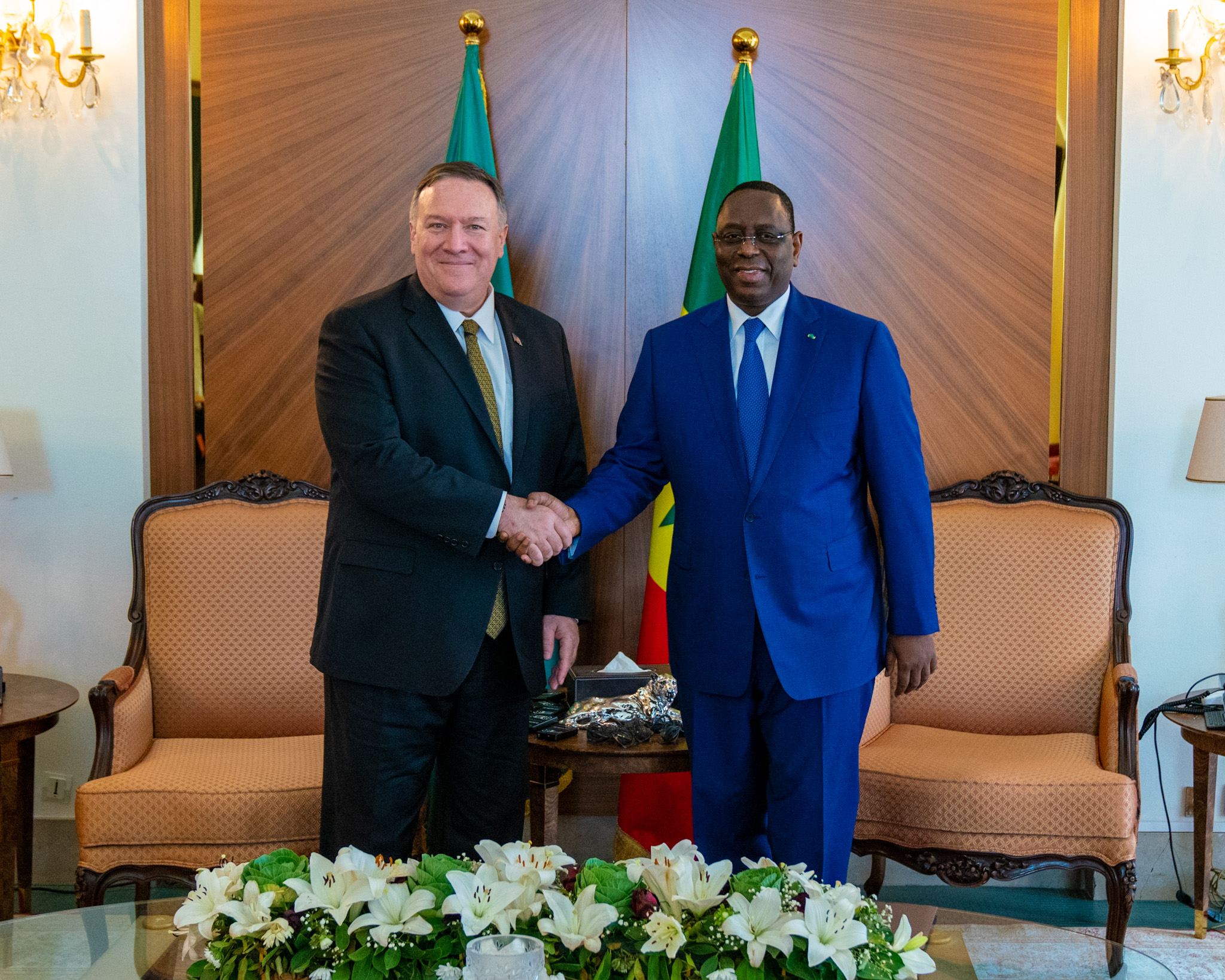 U.S. Secretary of State Michael R. Pompeo meets with Senegalese President Macky Sall in Dakar, Senegal, on February 16, 2020. [State Department Photo by Ron Przysucha/ Public Domain]